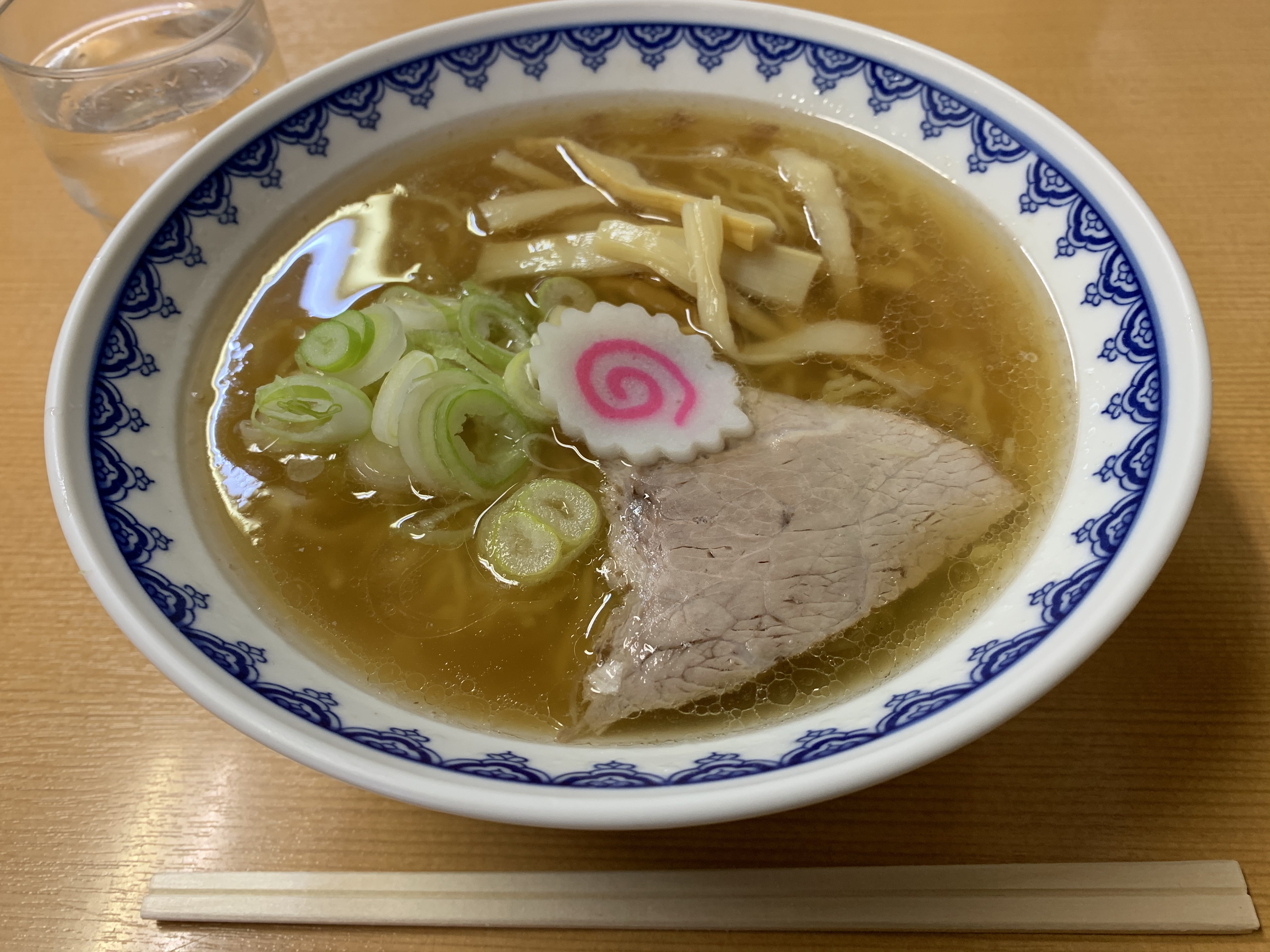 Chūka-soba, Sankichiya Nishibori-Honten, Niigata city, Niigata, Japan. Tooki photo in April 2020.